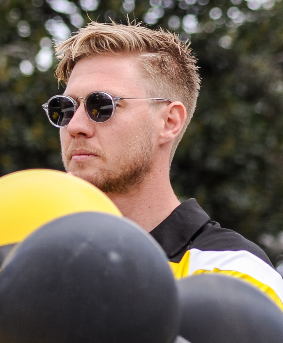 Nathan Broad at the 2017 AFL Grand Final parade on 29 September 2017 in Melbourne, Victoria.